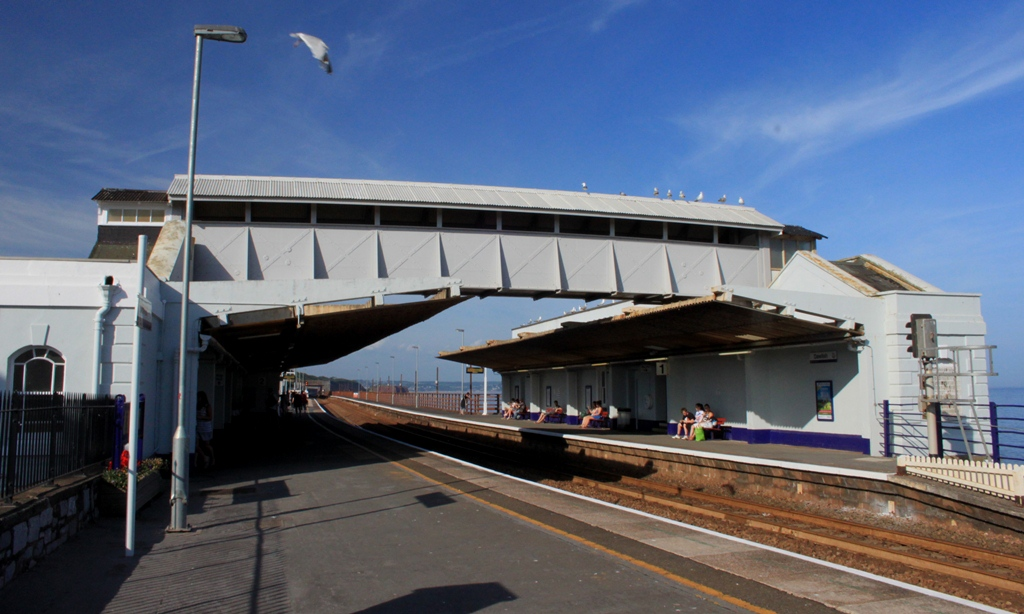 The footbridge at Dawlish railway station, which dated from the 1870s, was demolished in 2012. Its repalcement is a copy of the old bridge but it is made from glass-reinforced plastic (grp).